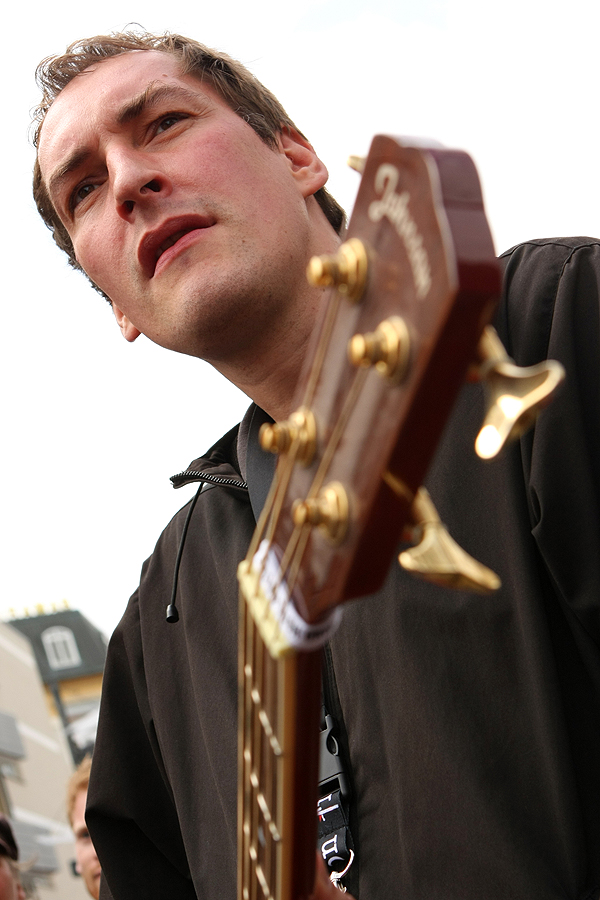 Reimer Bustorff, bassist ot the german band Kettcar, at a concert on August, 21st 2008 at the pedestrian zone in Westerland (Sylt).